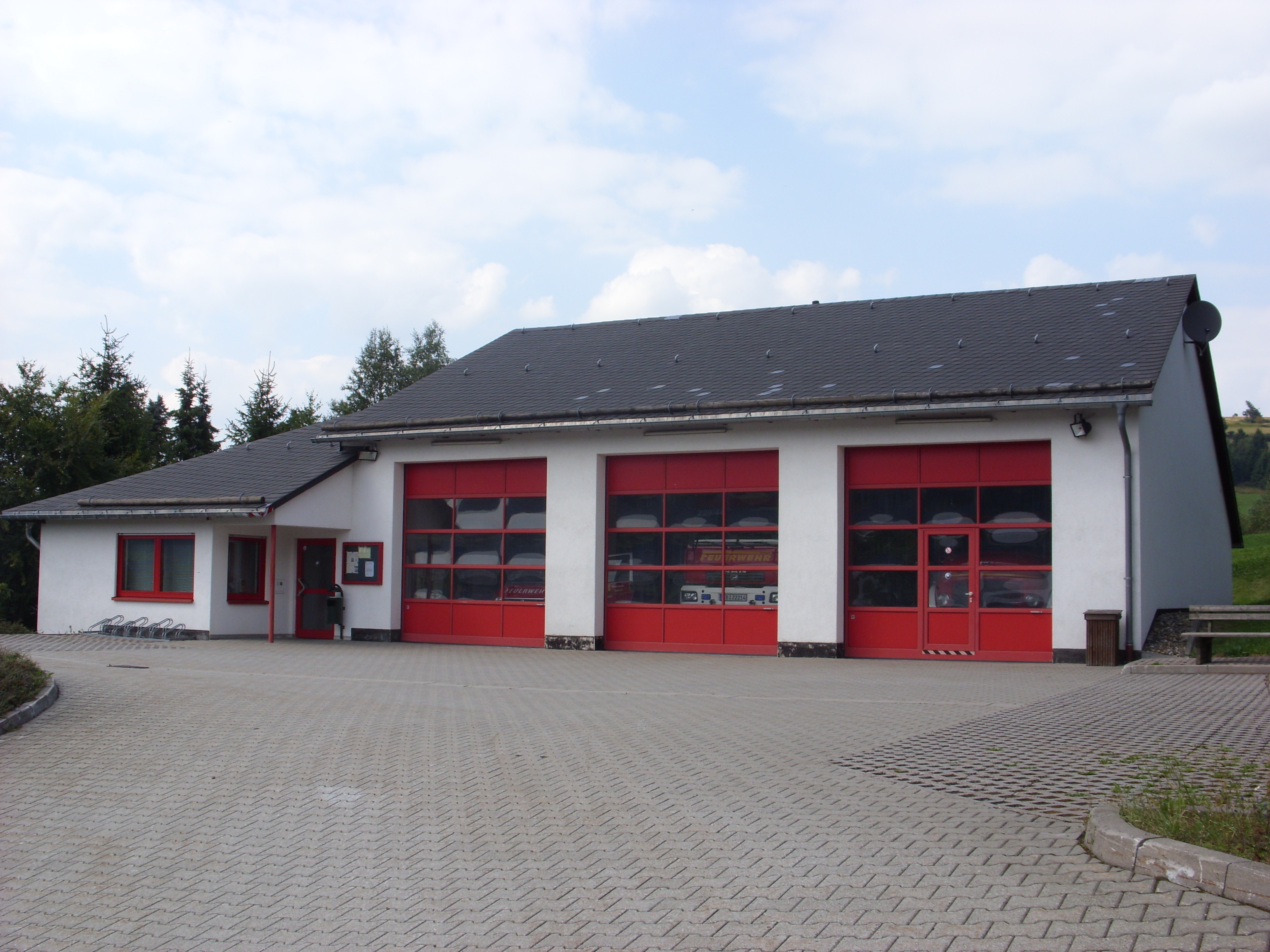 The fire station of the VFD Usseln (Willingen, Hesse, Germany)